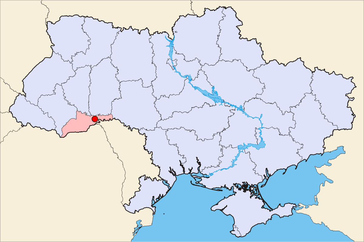 Description = Location map of Khotyn in western Ukraine. Source = own work, Dmytro S. Date = 27.05.2007 Author = Dmytro S. Credits = Colours chosen according to a map of steschke